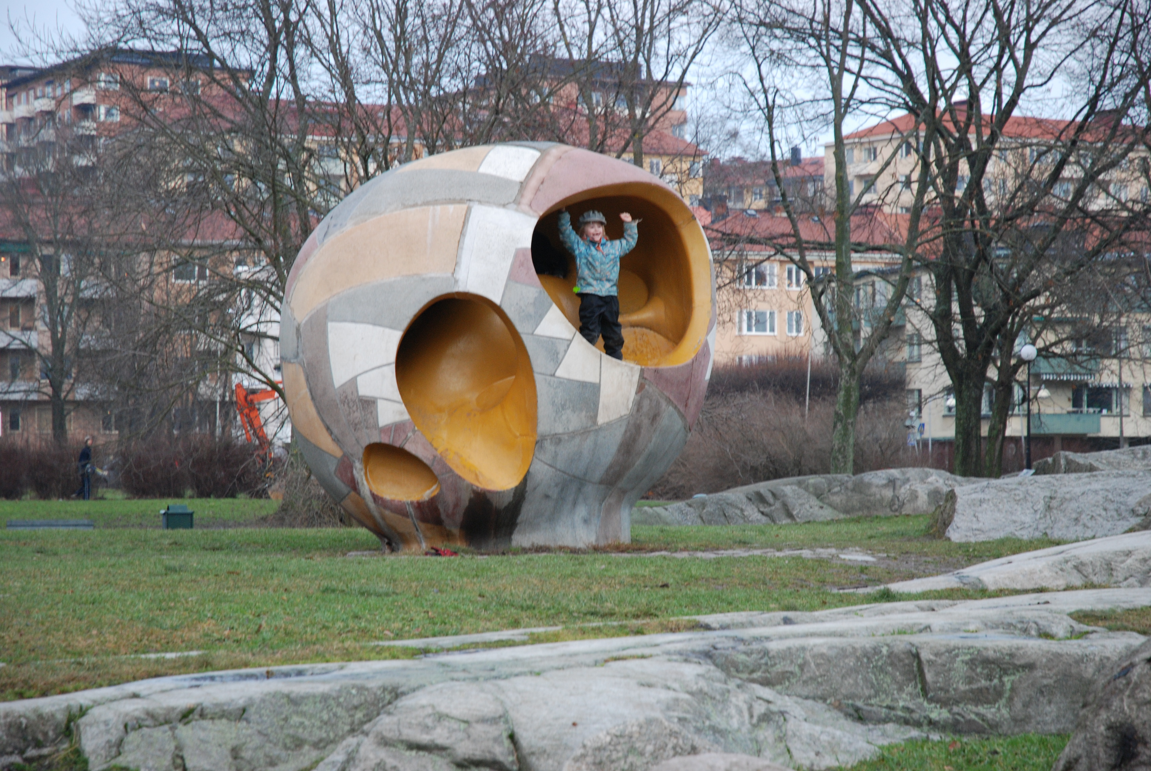 Egon Möller-Nielsen´s The Egg (Ägget), Stockholm, Sweden